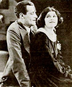 Still from the American film The Praise Agent (1919) with Dorothy Green and Arthur Ashley (1886 – 1970), on page 1501 of the August 16, 1919 Motion Picture News.